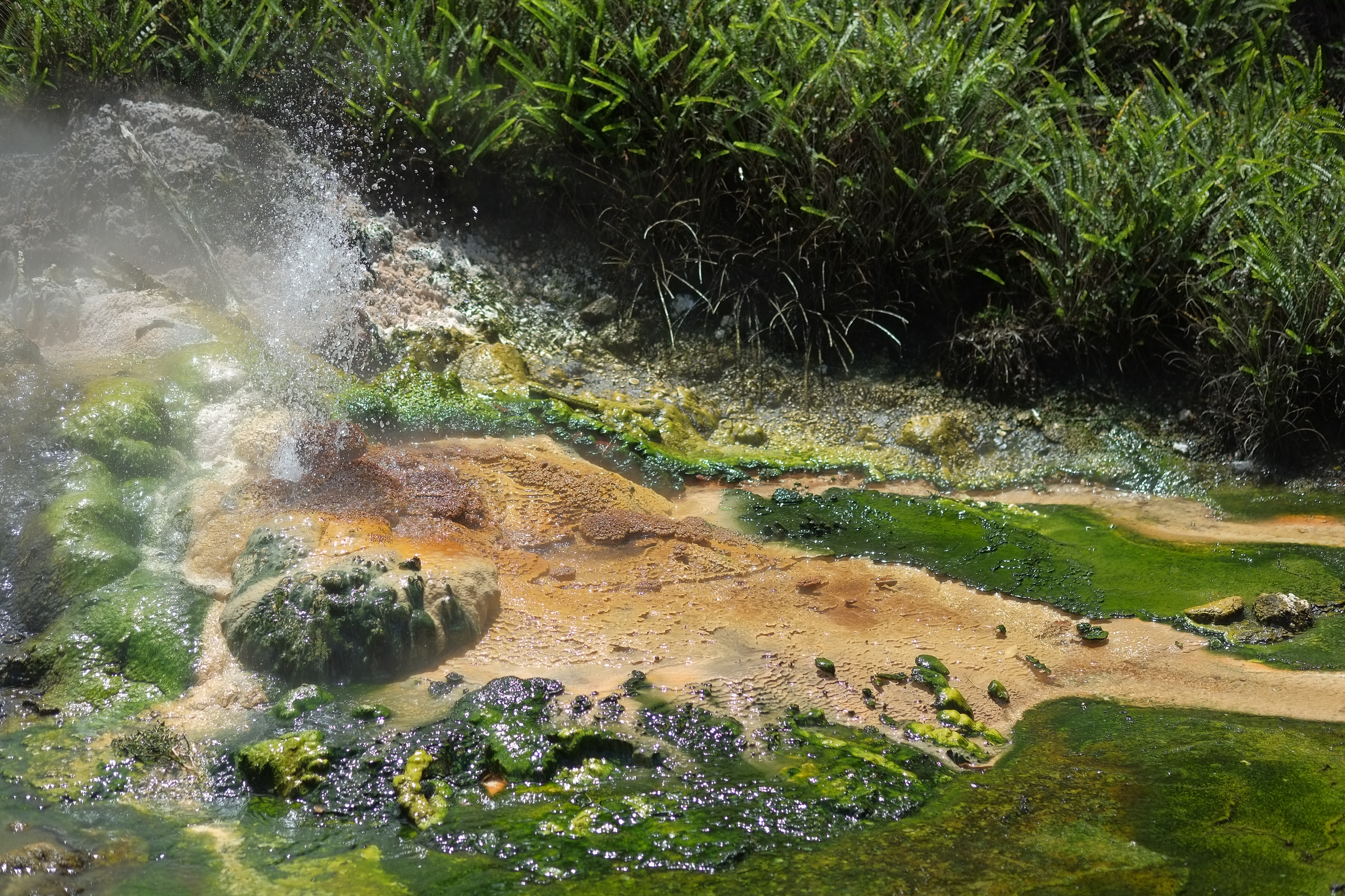 Bird's Nest Spring in Waimangu Volcanic Valley